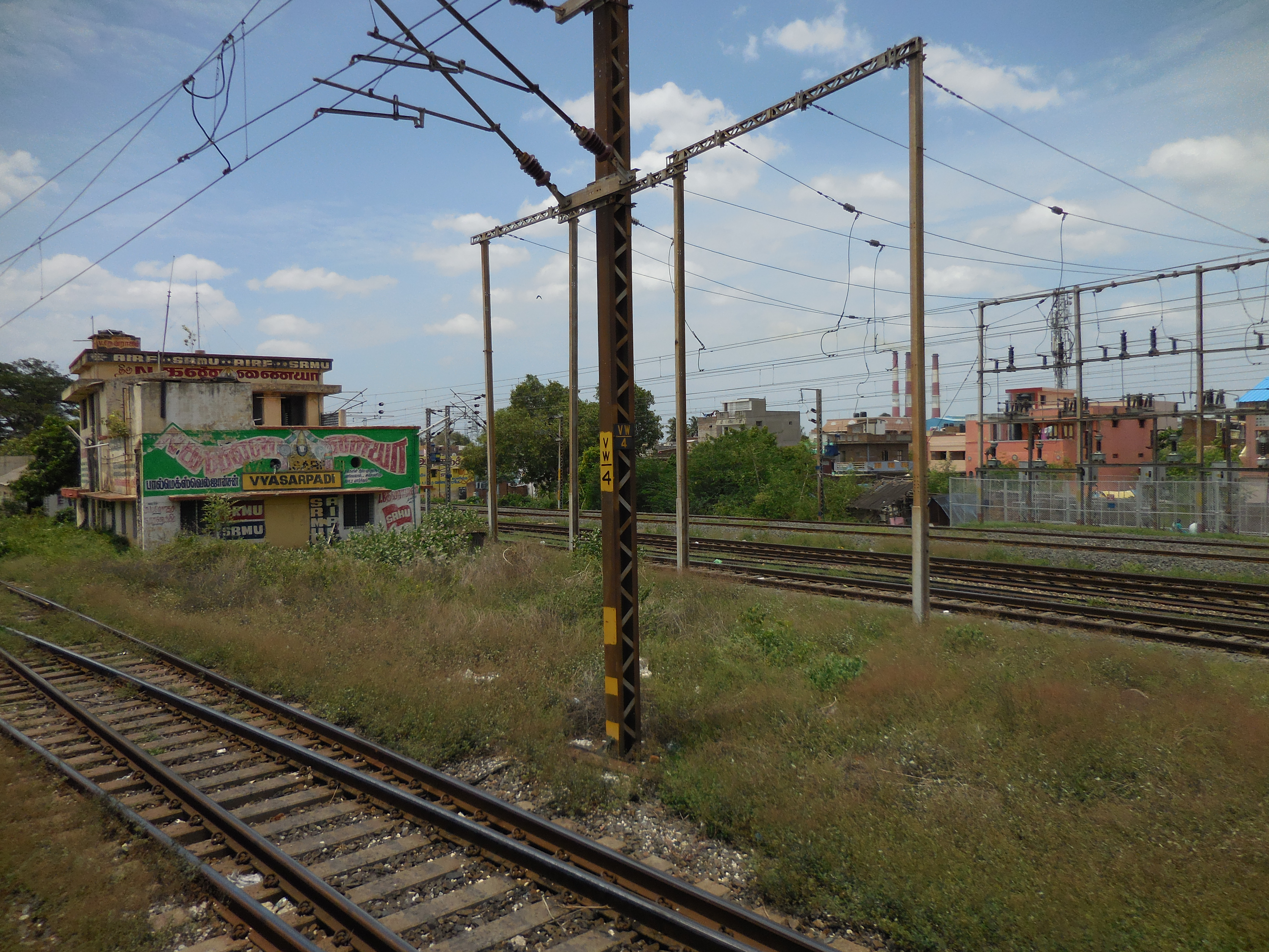 Vyasarpadi cabin near Vyasarpadi railway station, Chennai, taken on 15 July 2014 at noon.